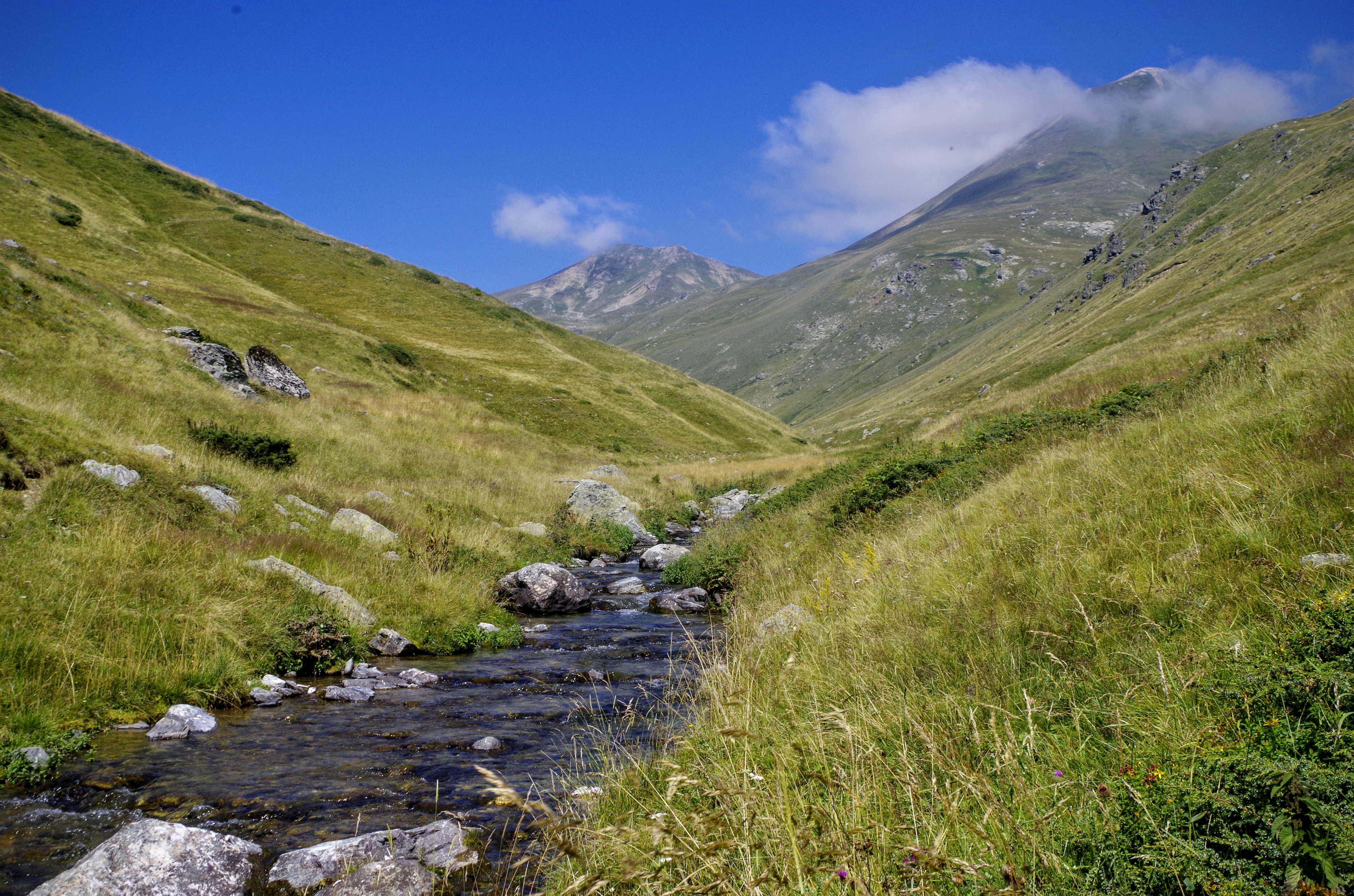 Slapska - Smreka river on Shar Mountain, Macedonia